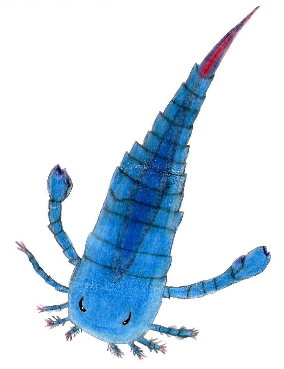 restauration teh Eurypterus